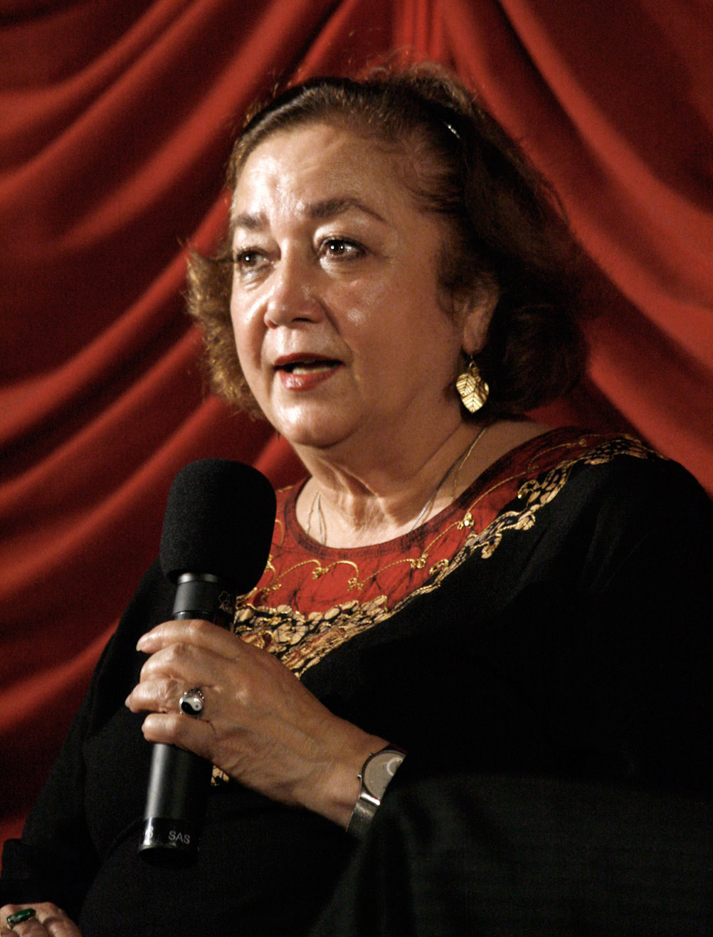 Shahrnush Parsipur talking about Zanan bedun-e mardan (Women without men) at the Gartenbaukino in Vienna.